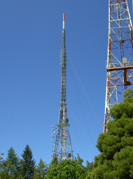 Television transmission towers, Mount Dandenong, Victoria. On left is ABC Channel 2's tower, on right is part of Channel 7's tower. Note the arrays on various non-TV frequencies on the Channel 2 tower.